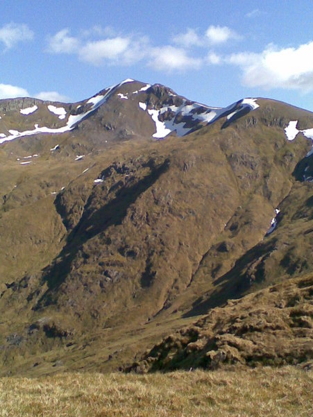 Mullach Fraoch-choire from its NW ridge Afternoon light in the spectacular Fraoch-choire looking towards the summit of Mullach Fraoch-choire from the NW ridge